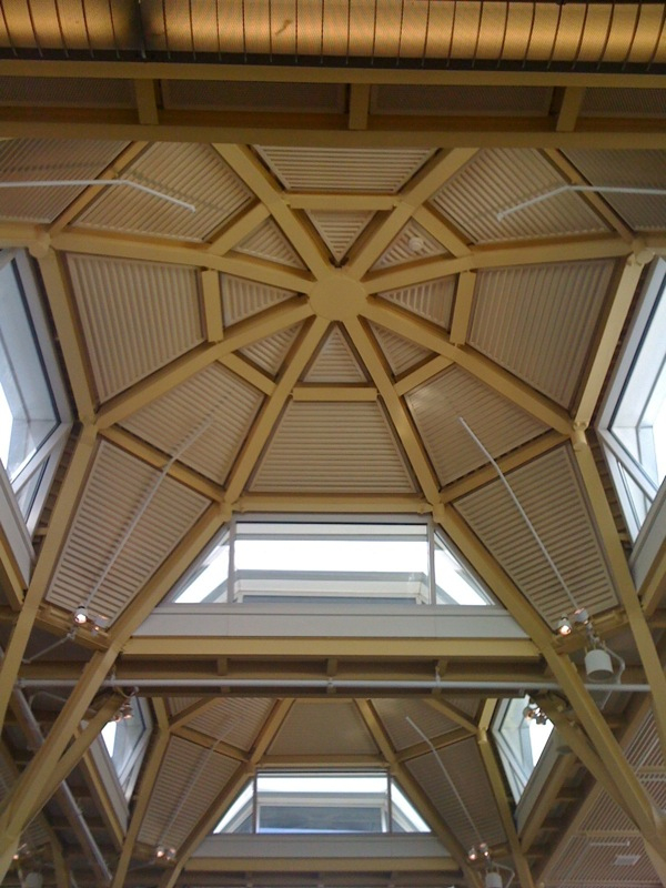 The ceiling at Terminal B at Reagan International Airport.